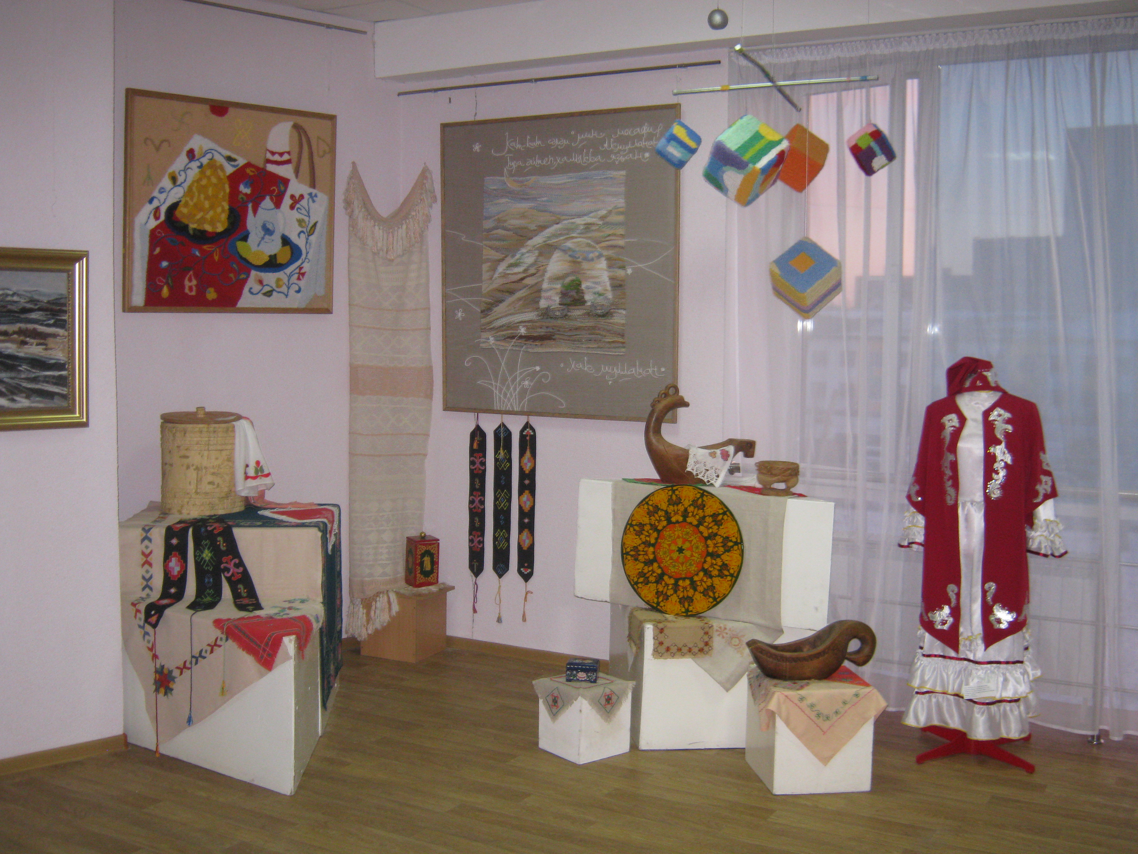 Works of schoolboys of art school